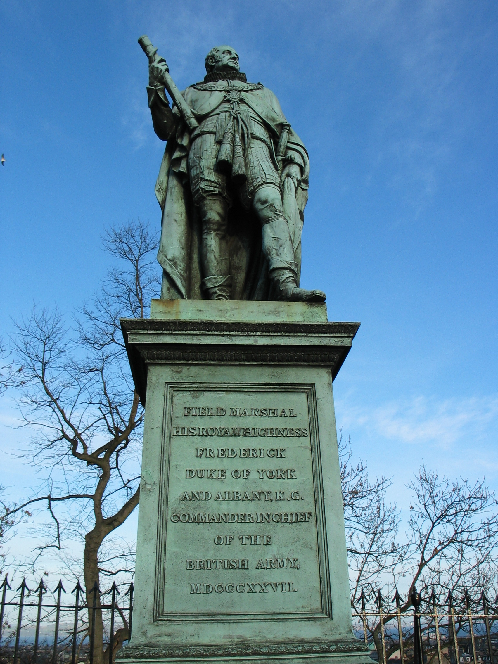 Statue of Prince Frederick, Duke of York and Albany, in Edinburgh. Sculptor ?????